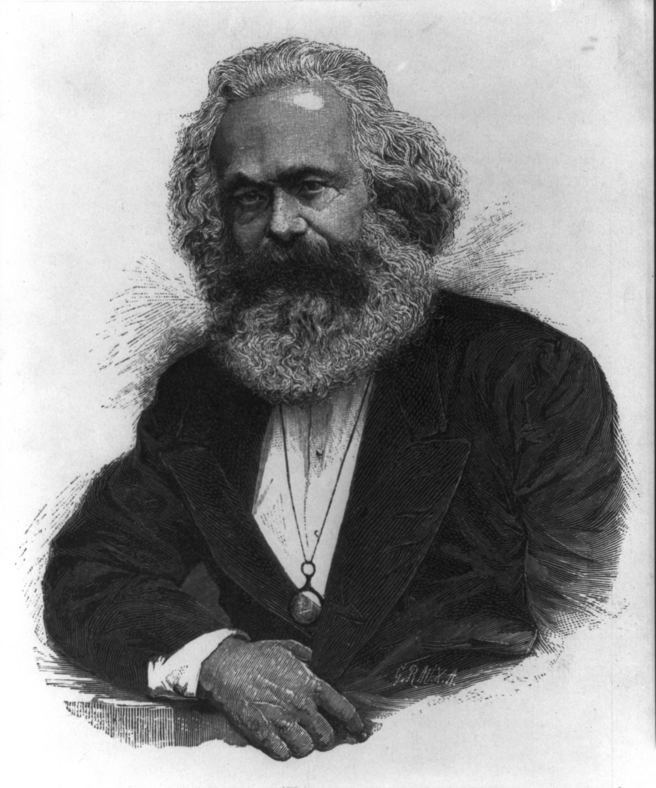 Title: Karl Marx Abstract/medium: 1 print : wood engraving.